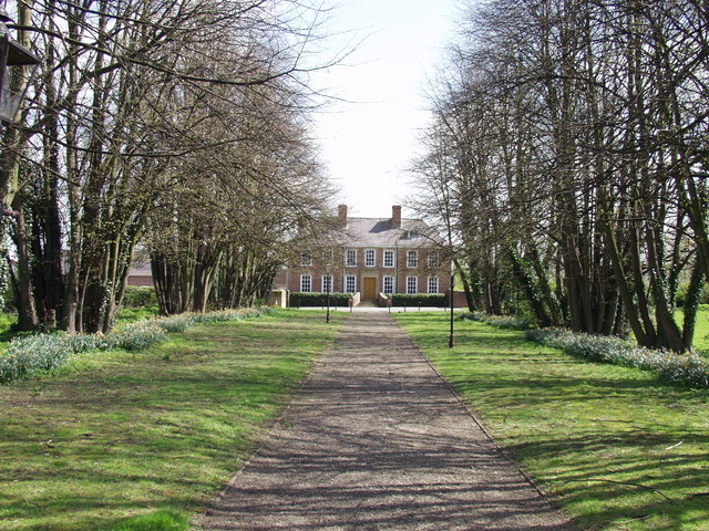 Croesnewydd Hall, Wrecsam. A beautifully maintained old house used for offices.